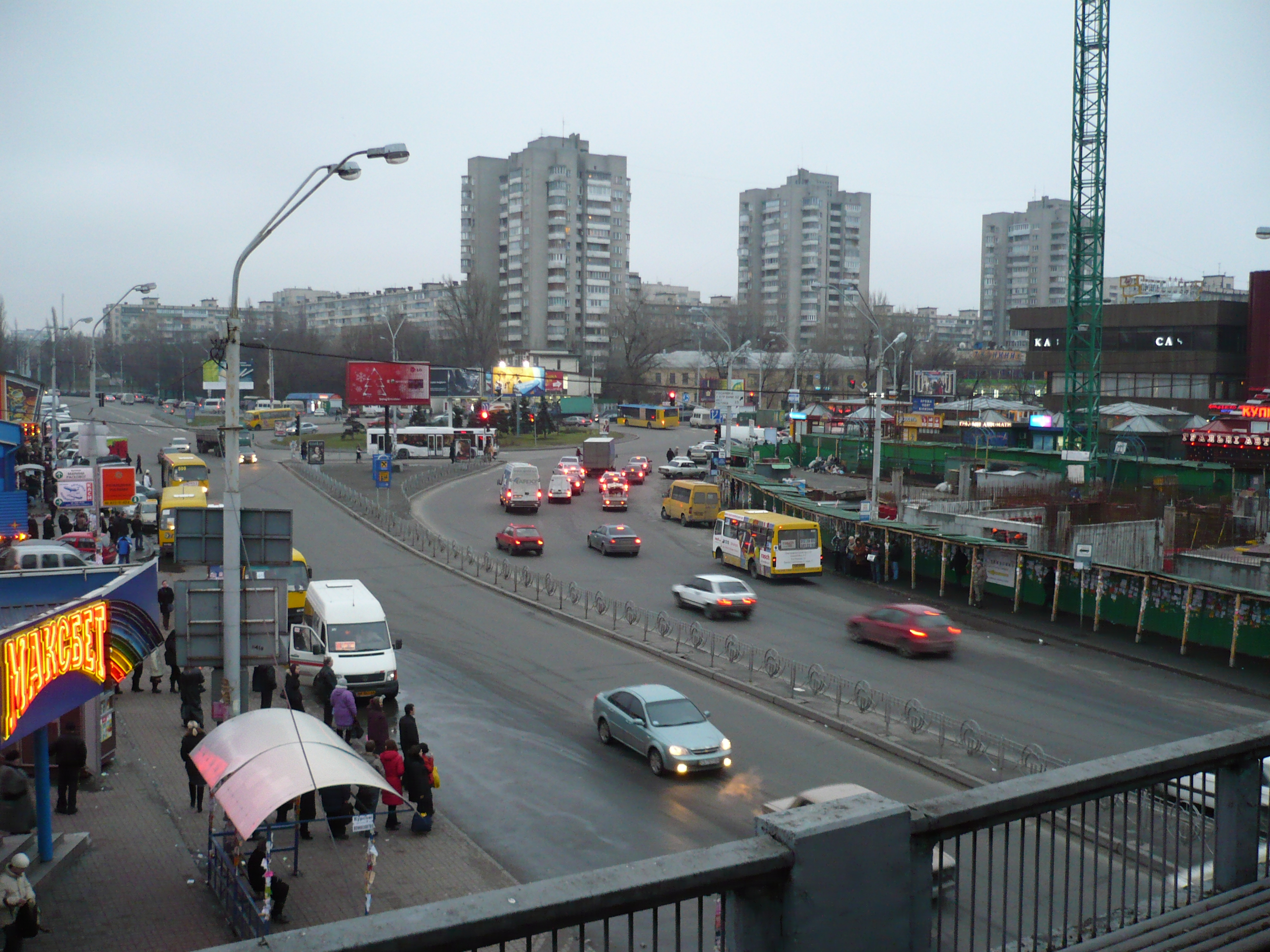 ...where I would get off the Metro from central Kyiv, and walk down 10 minutes to Rusanivka island and the apartment, Venetia, etc.